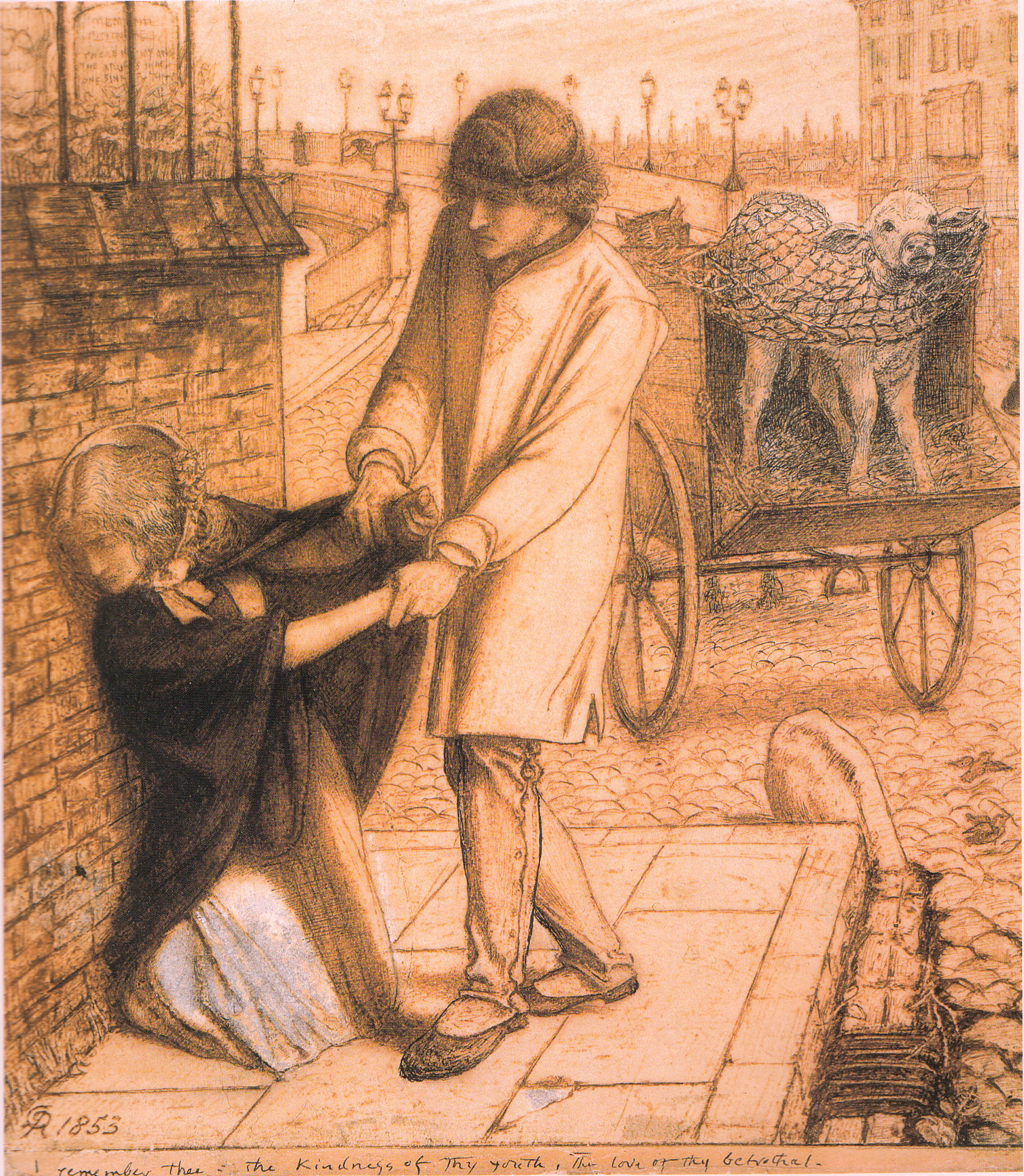 Study in for Found, black and brown ink and wash with white heightening on paper. Signed with monogram DGR and dated 1853.